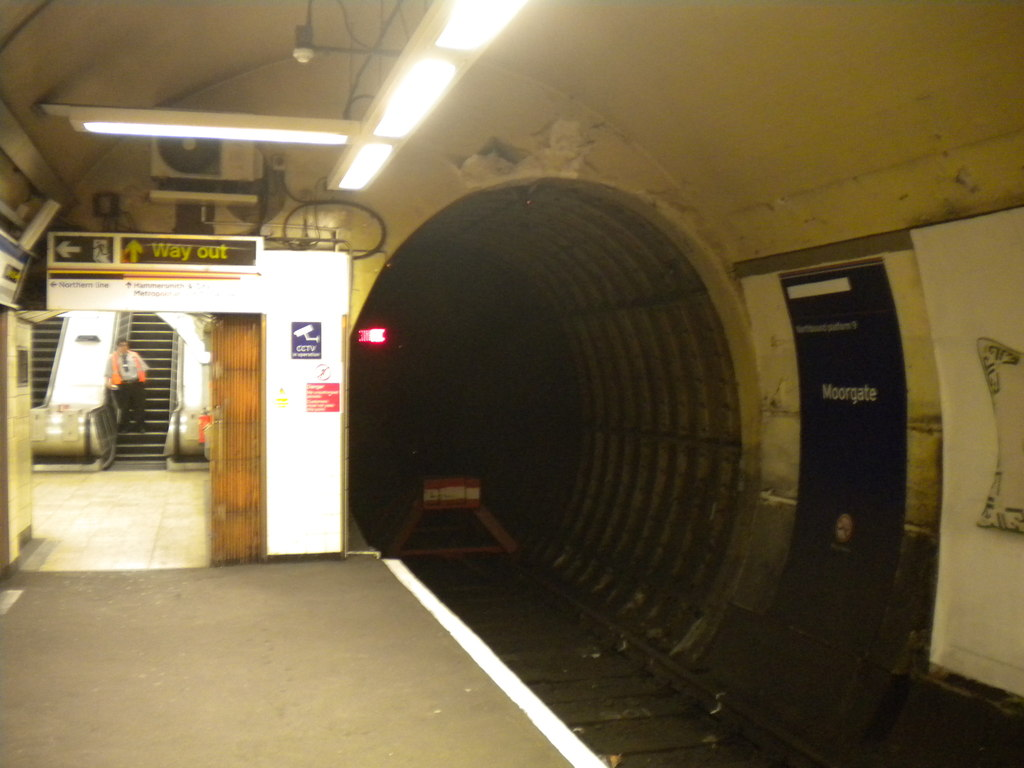 The end of platform 9 at Moorgate station, the scene of the Moorgate tube crash